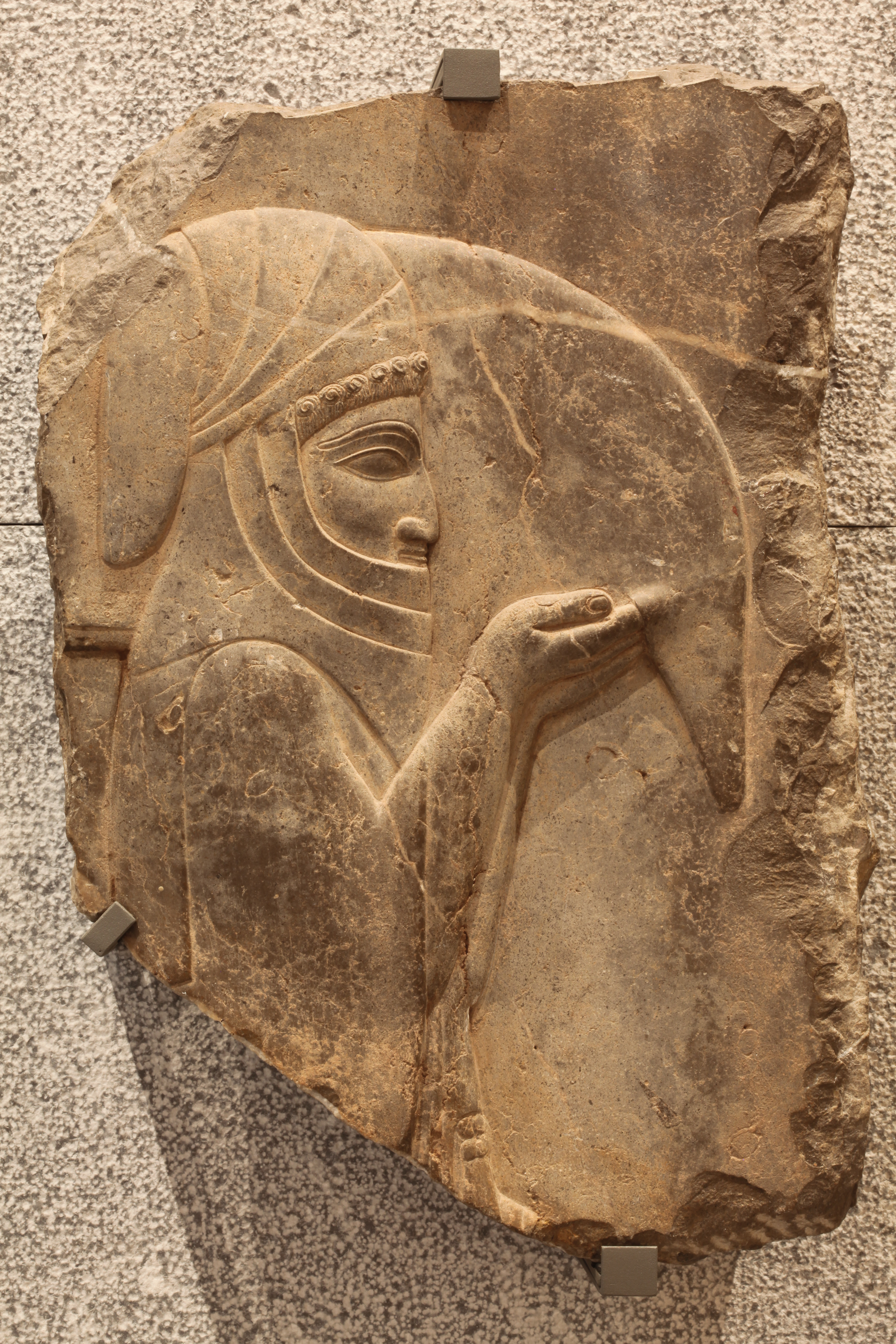 Waterskin bearer. Fragment of a procession of servants bearing meals for a banquet that ornated a wall near stairs in a Persepolis palace.